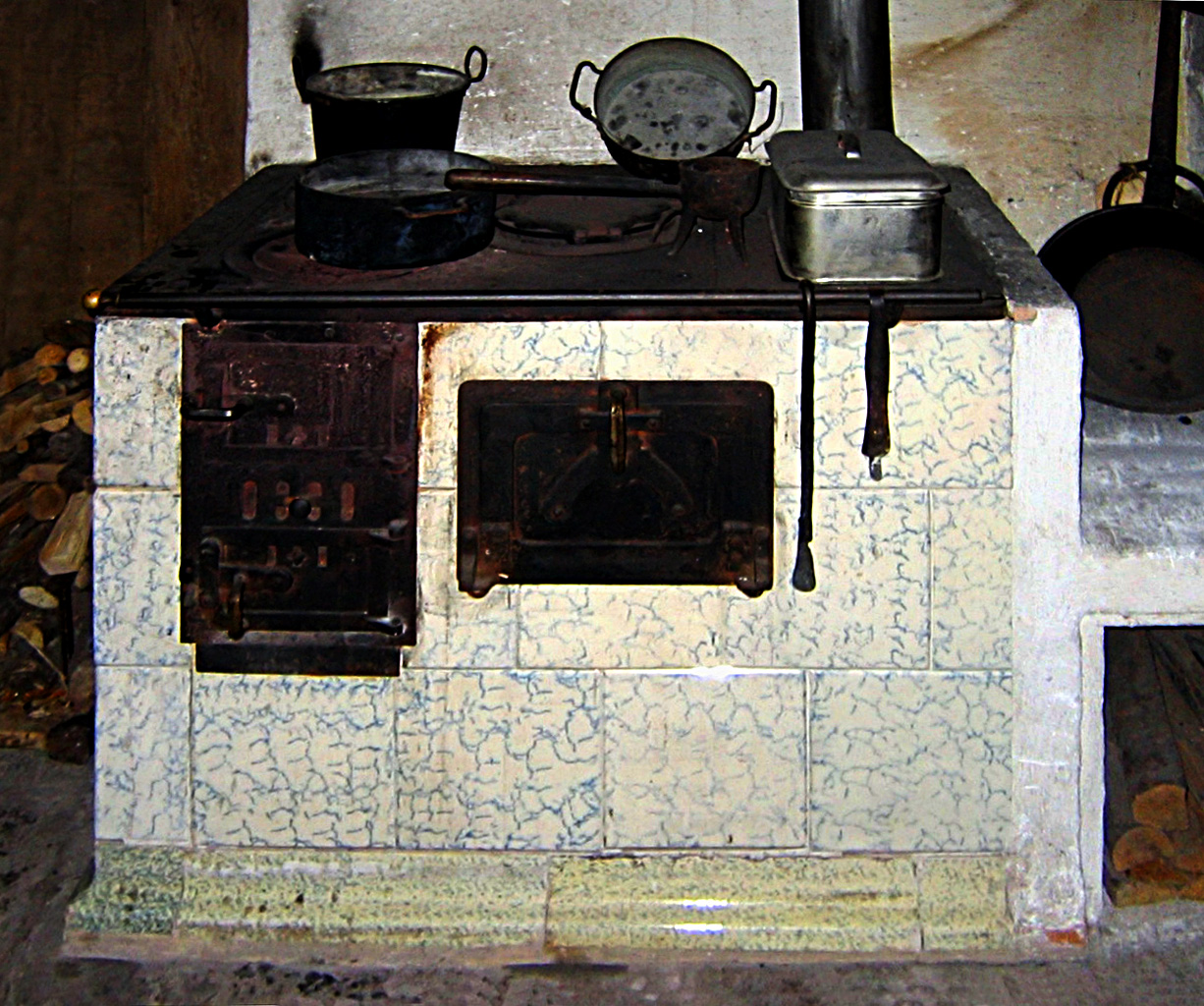 Wood fired stove at the Freilichtmuseum Neuhausen ob Eck